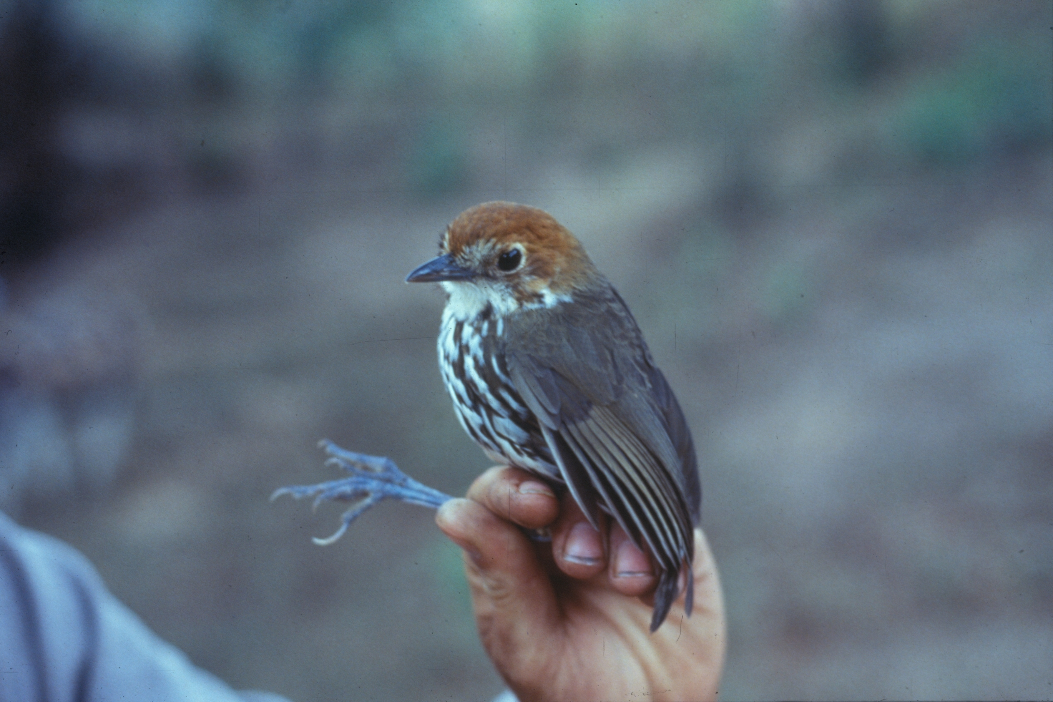 Chestnut-crowned Antpitta (Grallaria ruficapilla) from Ecuador. Picture from the NBII Image Gallery.